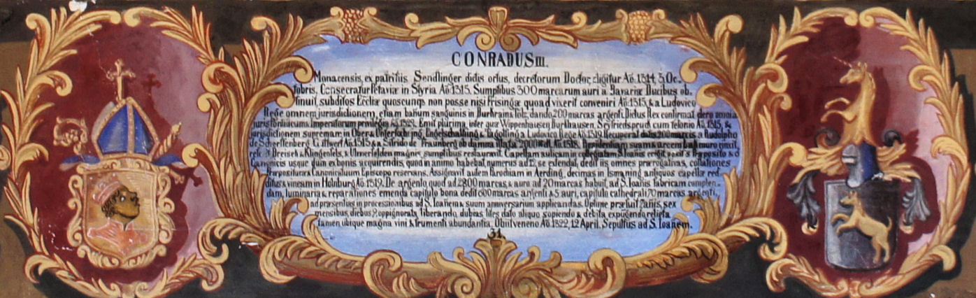 Wappentafel von Konrad III. der Sendlinger, Fürstbischof von Freising, im Fürstengang zwischen Fürstbischöflicher Residenz und Freisinger Dom. Links das geistliche, rechts das persönliche Wappen, darunter ein lateinischer Text mit kurzer Biographie.